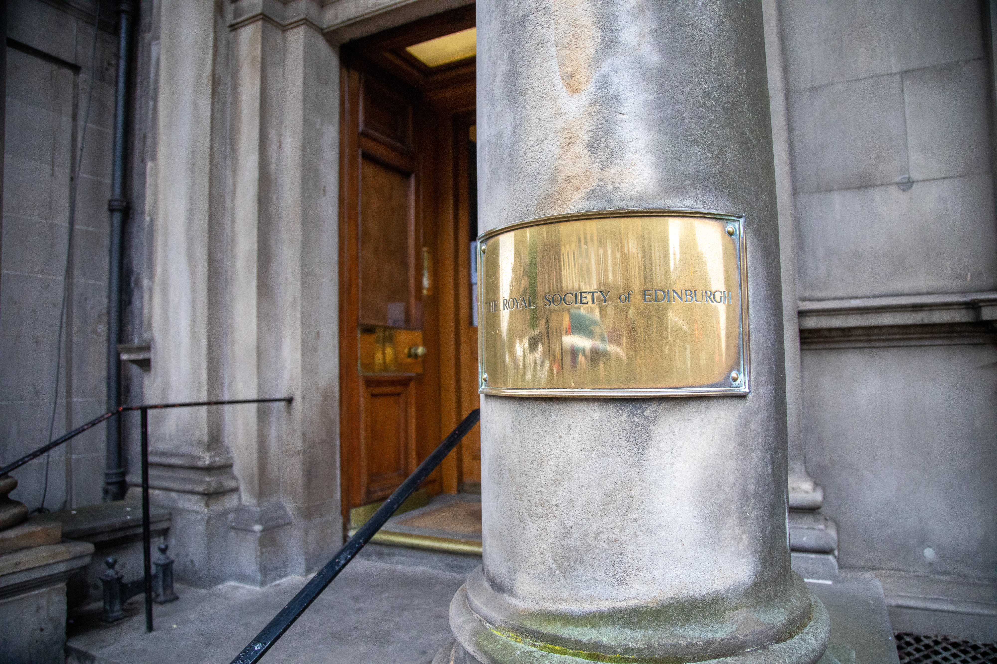 The entrance of the Royal Society of Edinburgh